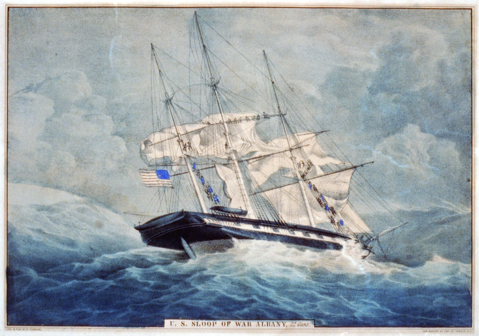 U.S. sloop of war Albany: 22 guns. New York: Published by N. Currier. Currier & Ives. A size. Lithograph print, hand-colored. Currier & Ives : a catalogue raisonné / compiled by Gale Research. Detroit, MI : Gale Research, c1983, no. 6851